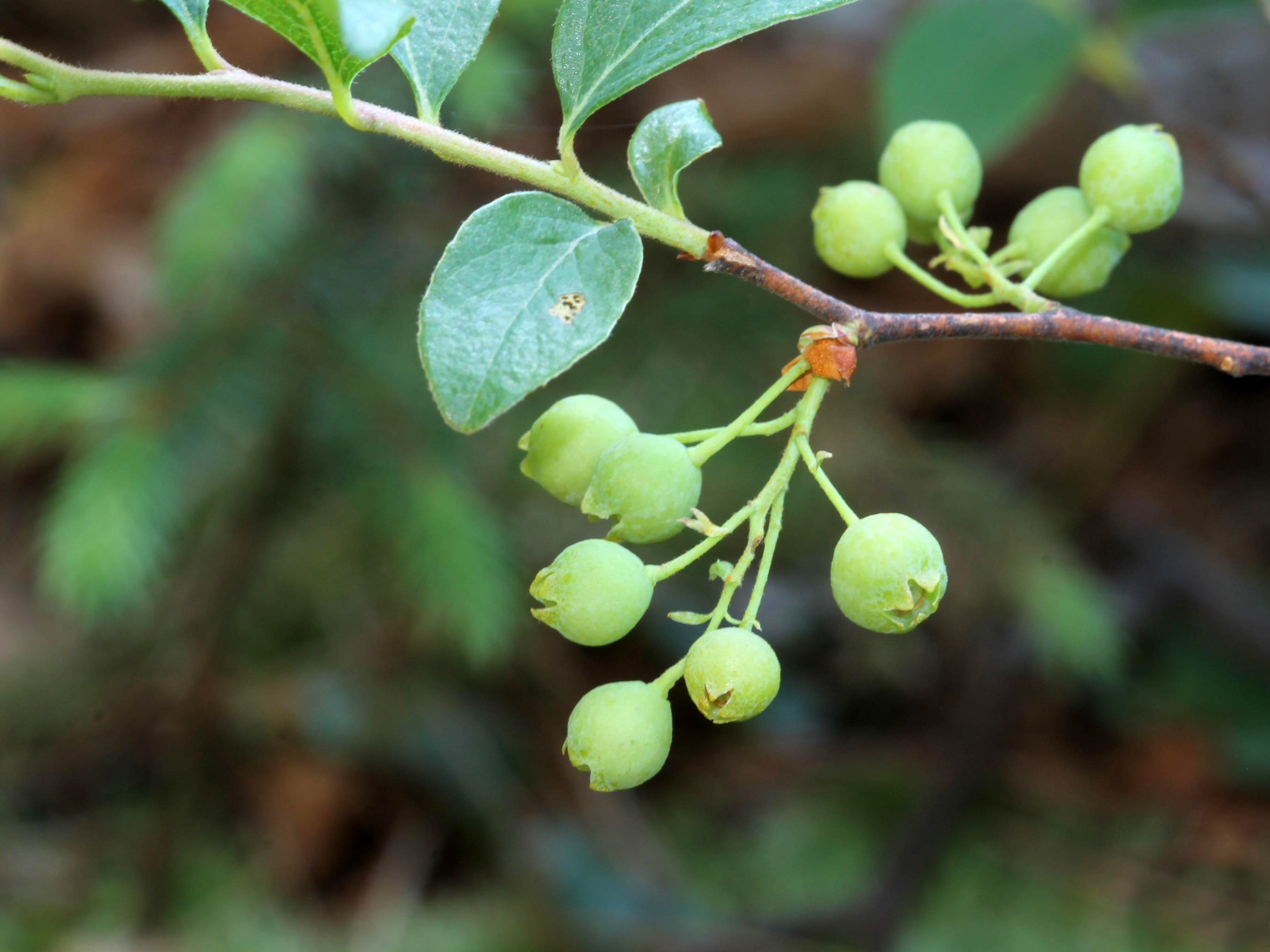 black huckleberry. Gaylussacia baccata (Wangenh.) K. Koch. Fruit(s) Developing fruit of Gaylussacia baccata (black huckleberry), early July. Mary Ann Lake, Sault Ste. Marie Airport, Sault Ste. Marie, Ontario, Canada, , Canada